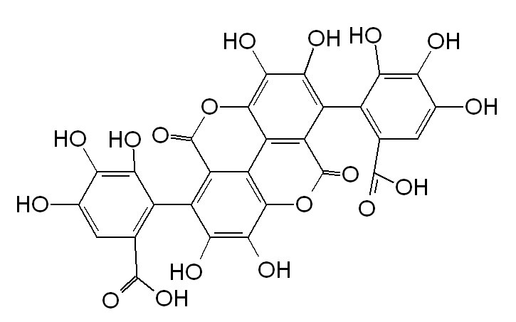 chemical structure of gallagic acid